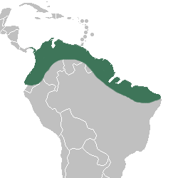 Selenipedium distribution map